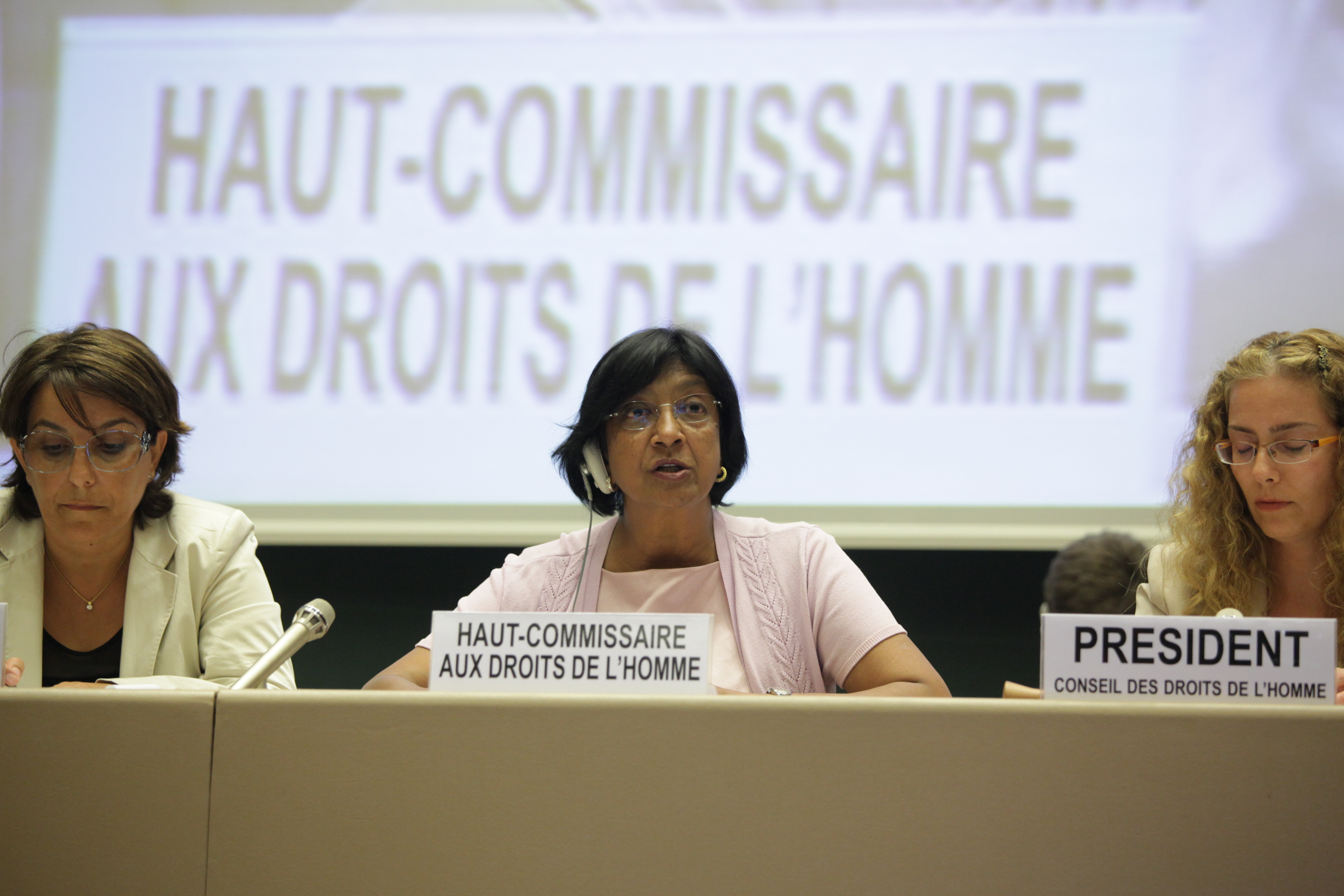 The United Nations Human Rights Council held an emergency special session on the human rights situation in Syria August 22-23, 2011 The council voted 33-4 to order an investigation into human rights violations committed by Syrian security forces. "Today's vote at the Human Rights Council is another sign of the growing consensus in the international community that the Assad regime has lost the legitimacy to govern and that Assad himself should step aside," said Ambassador Eileen Chamberlain Donahoe. U.S. Mission Photo by Eric Bridiers